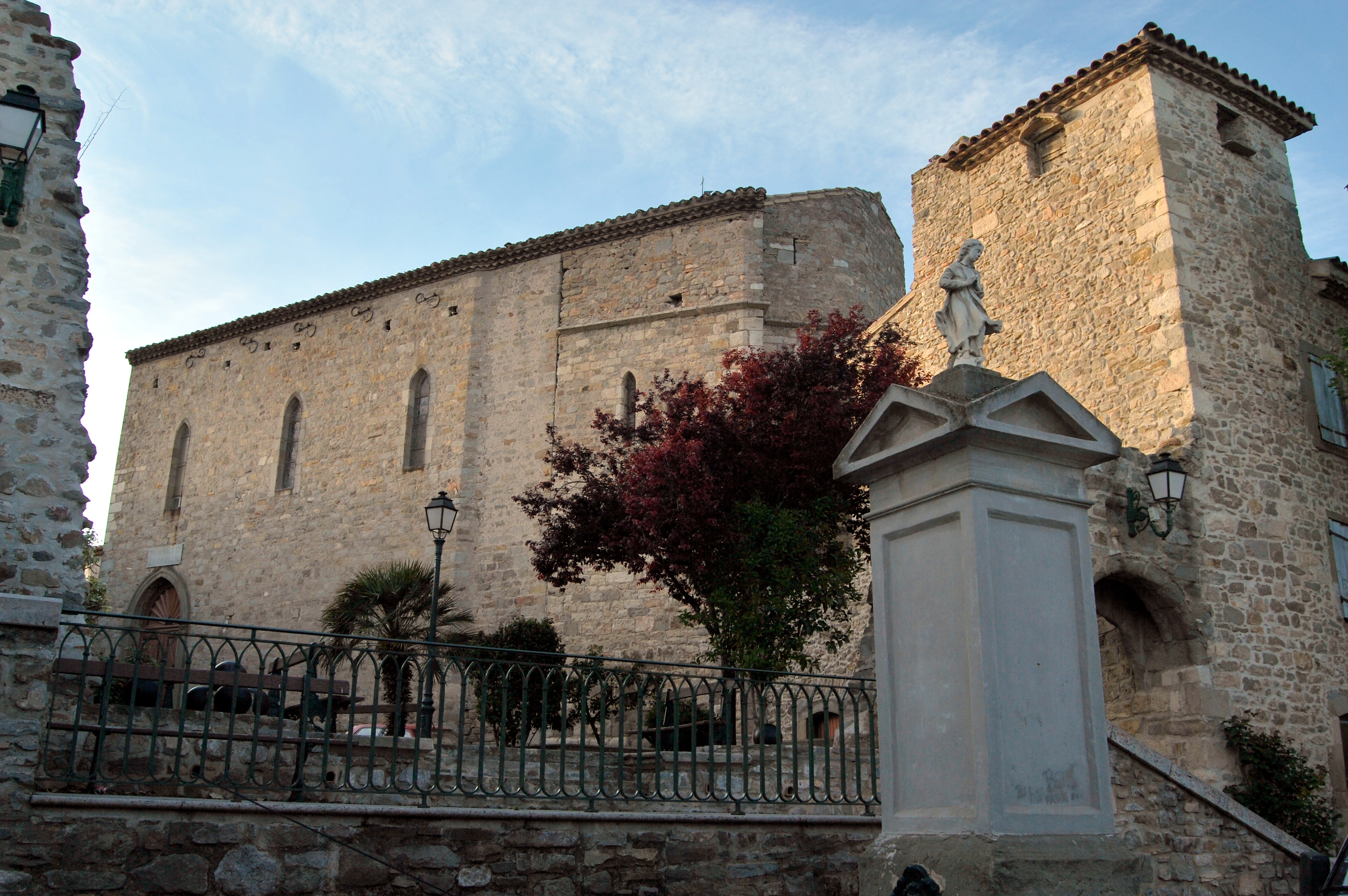 The ancient church of Moux